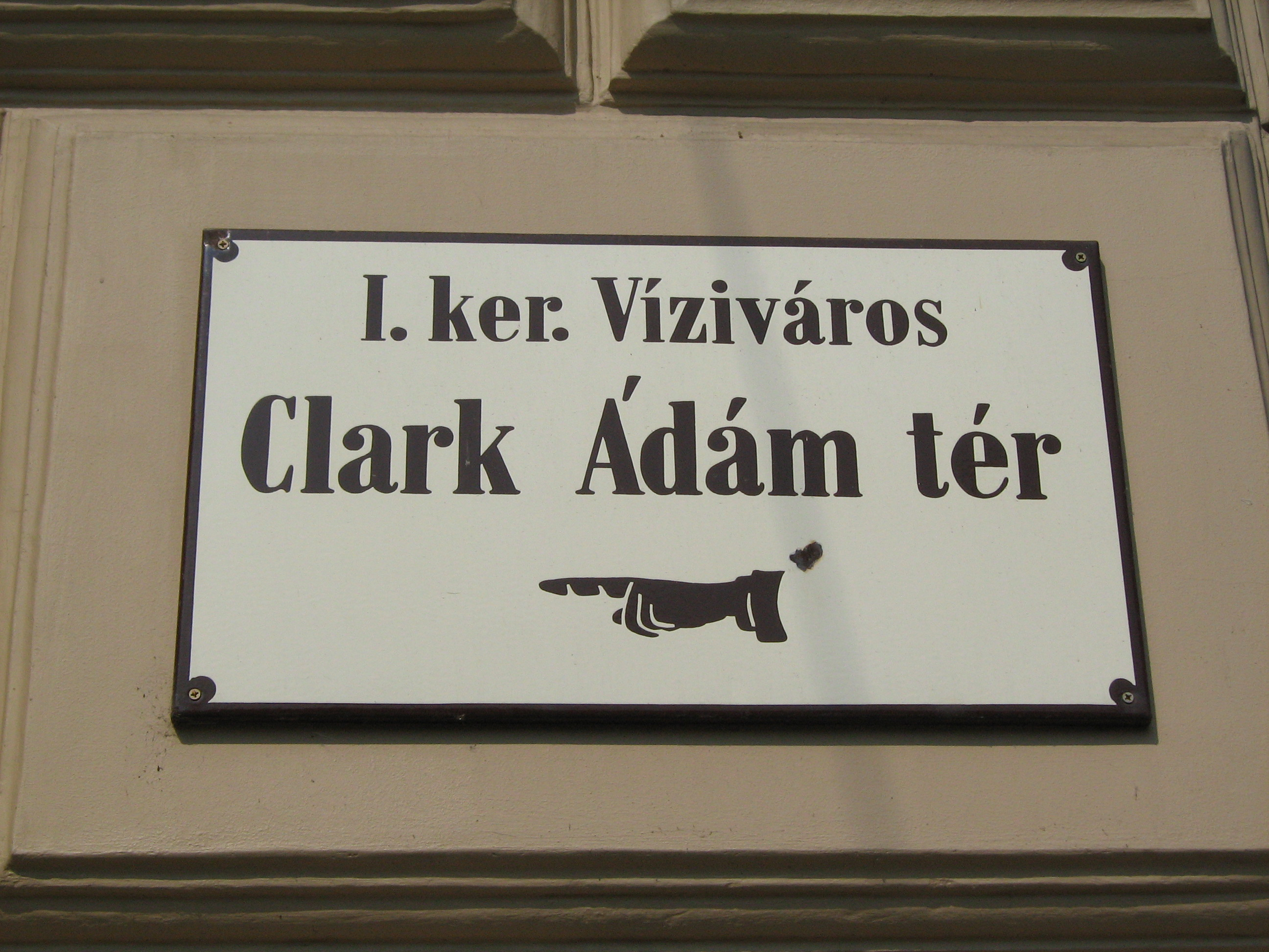 Street Sign in Budapest. September 9, 2009.